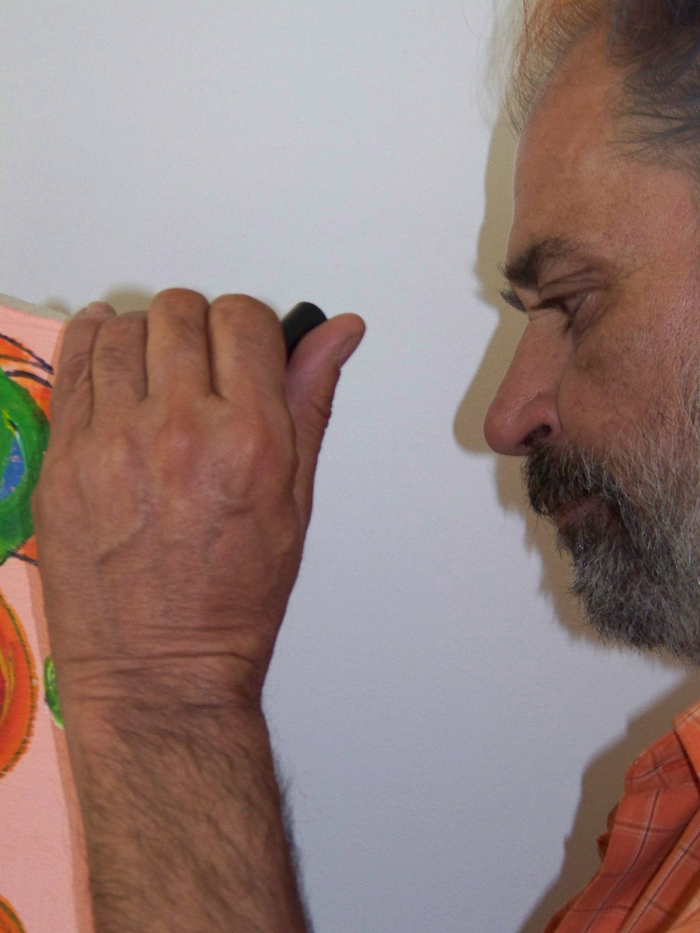 The mexican Painter Eliseo Garza Aguilar with "Consecration of the Springtime"